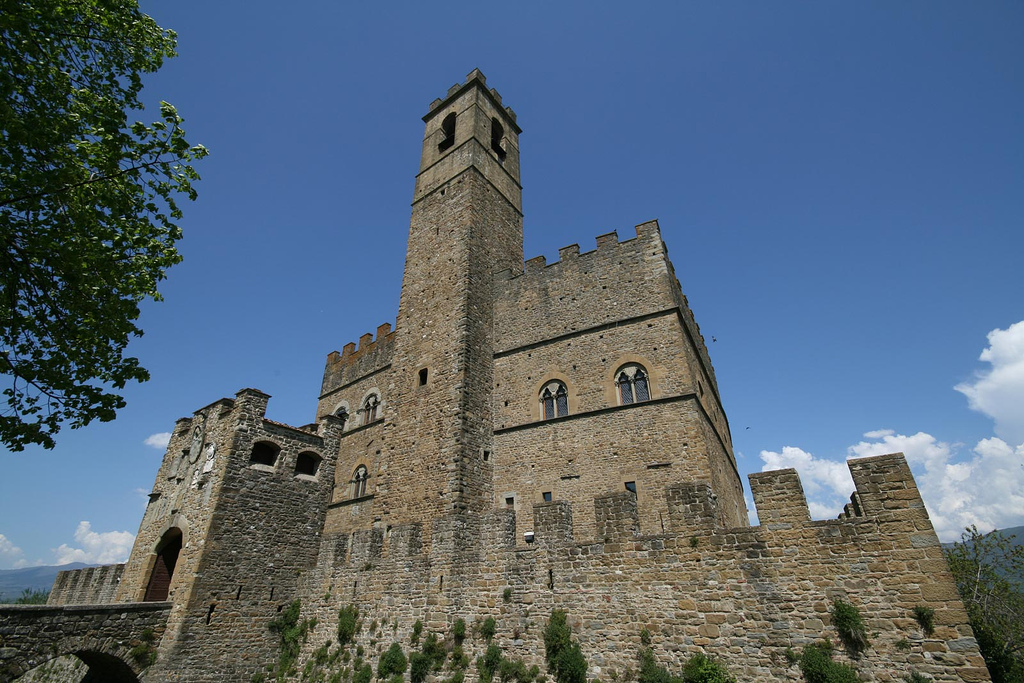 see above